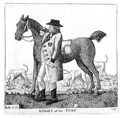 Sir Archibald Hope, 9th Baronet Hope of Craighall, Scotland, seat Pinkie House, Musselburgh, Edinburgh, from Kay's Portraits ffrScotland